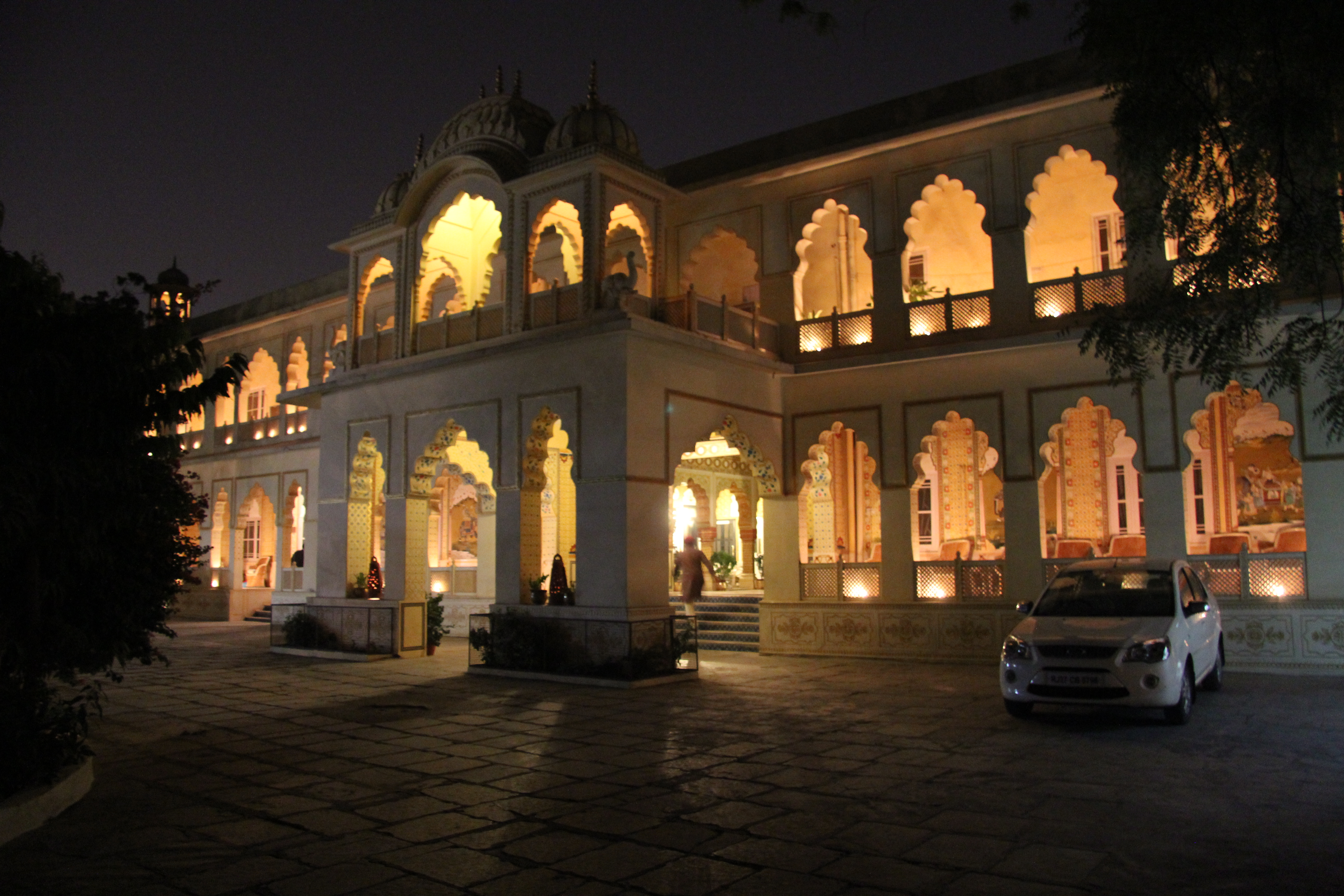 Bissau Palace, Jaipur: Thakur SHYAM SINGH (1771 - 1831), was the third Thakur (leader, chief) of Bissau and ruler from 1787 to 1831. He was the most famous of all the rulers of Bissau; he brought fame and fortune to the state of Bissau and was considered amongst the best warriors of his time. He aligned with the French in his constant battles with the British and had also maintained very close ties with the Maharaja Ranjit Singh of Punjab Bissau Palace is an elegant traditional hotel built in 1919 and recently renovated close to the walled city and overlooking the Tiger fort. It is located in a very dense part of Jaipur but is an oasis. The quality of the facilities is only 3 star. Read more